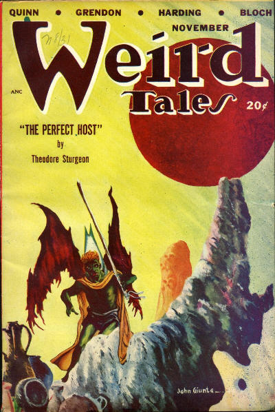 Cover of the pulp magazine Weird Tales